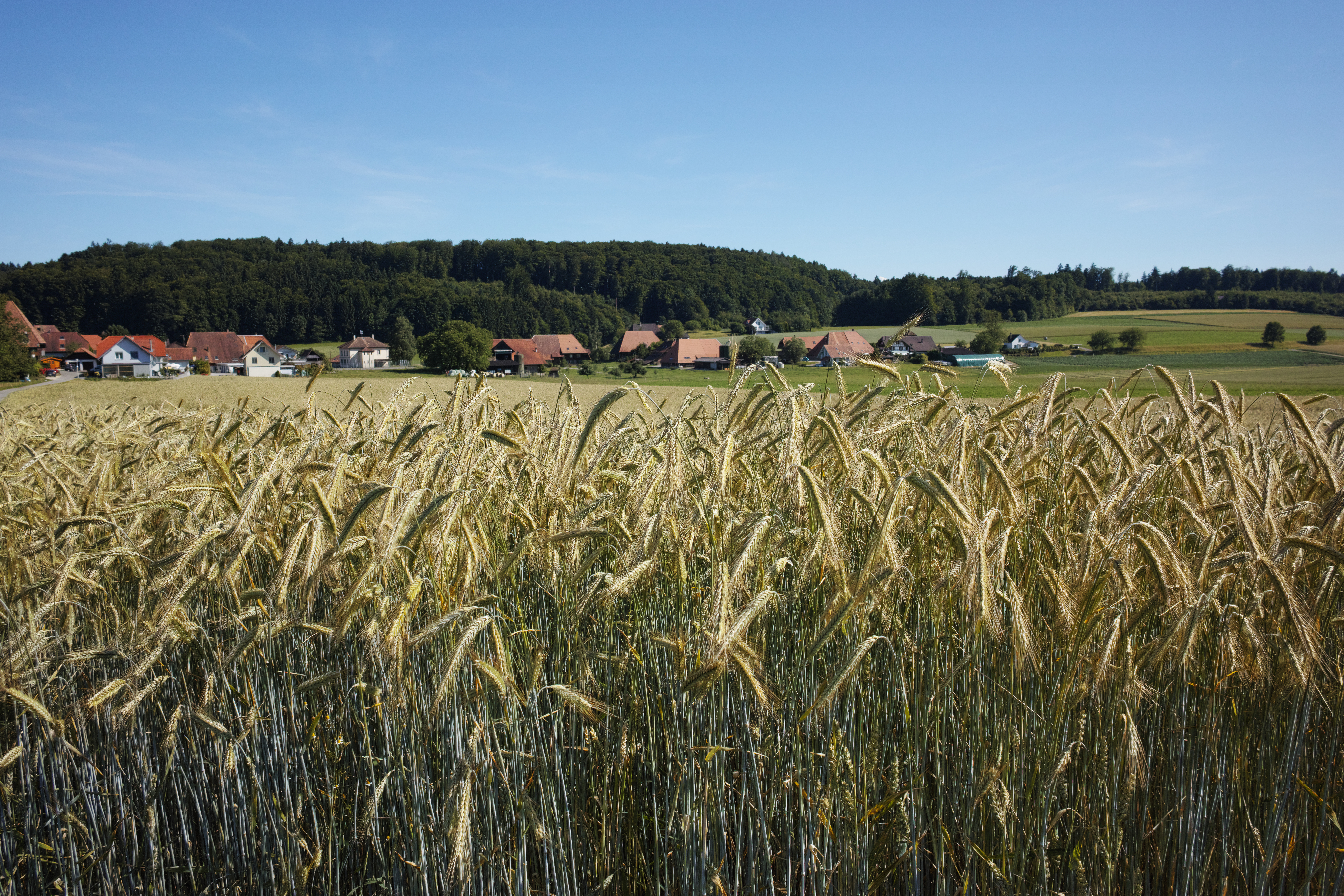 Field (likely Triticale) in Gossliwil, municipality of Buchegg, canton of Solothurn, Switzerland. Part of the village of Gossliwil is visible in the background